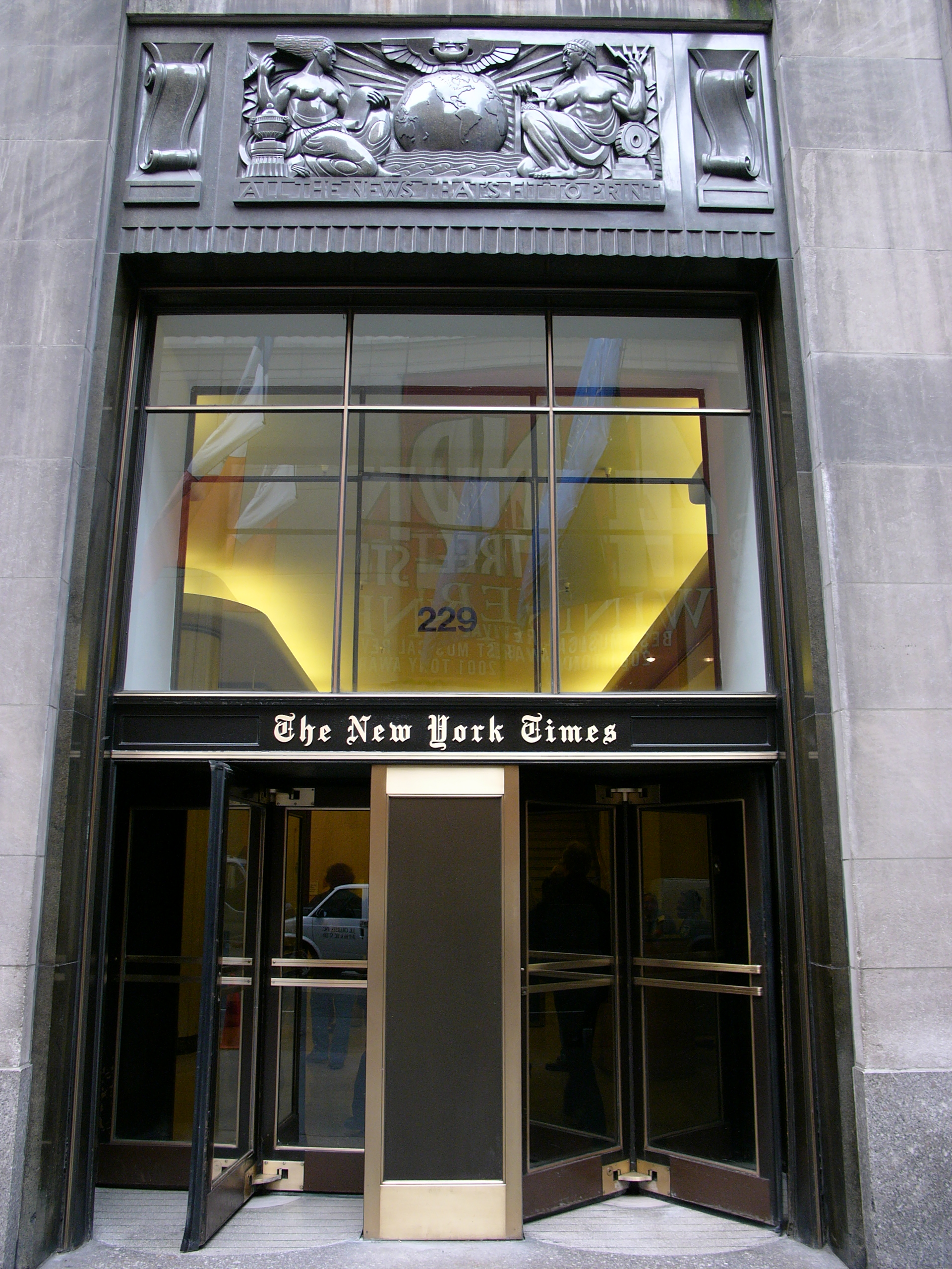 The New York Times' former headquarters at 229 West 43rd Street, also called The Times Square Building and "Times Annex" in New York City. The 1912 steel-frame building with masonry facade, 18 stories, used for offices is located within the Manhattan market and in the Theatre District - Times Square neighborhood.